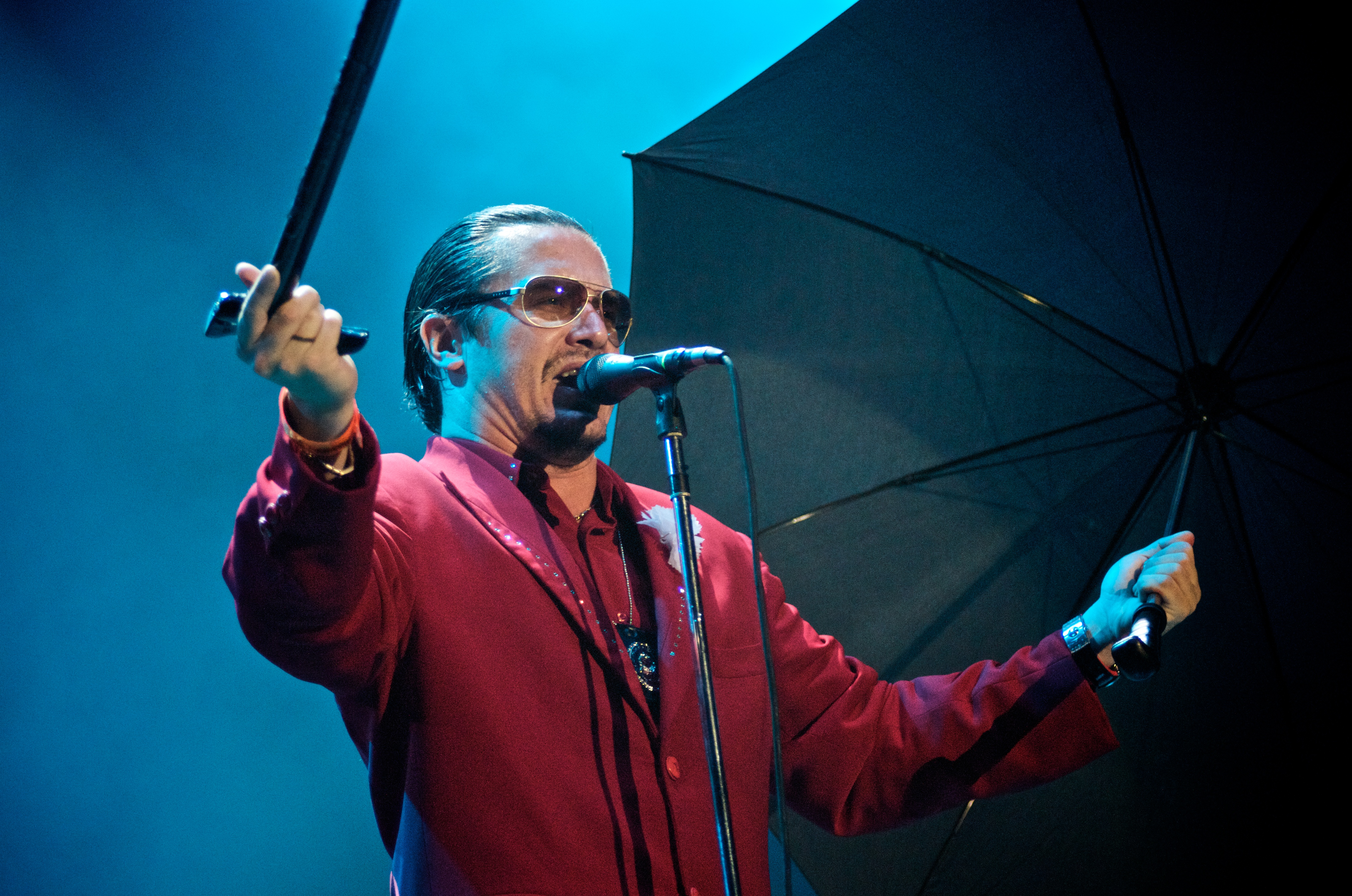 PFaith No More in Maquinária Festival, occurred in November 7 2009 at São Paulo, Brazil.